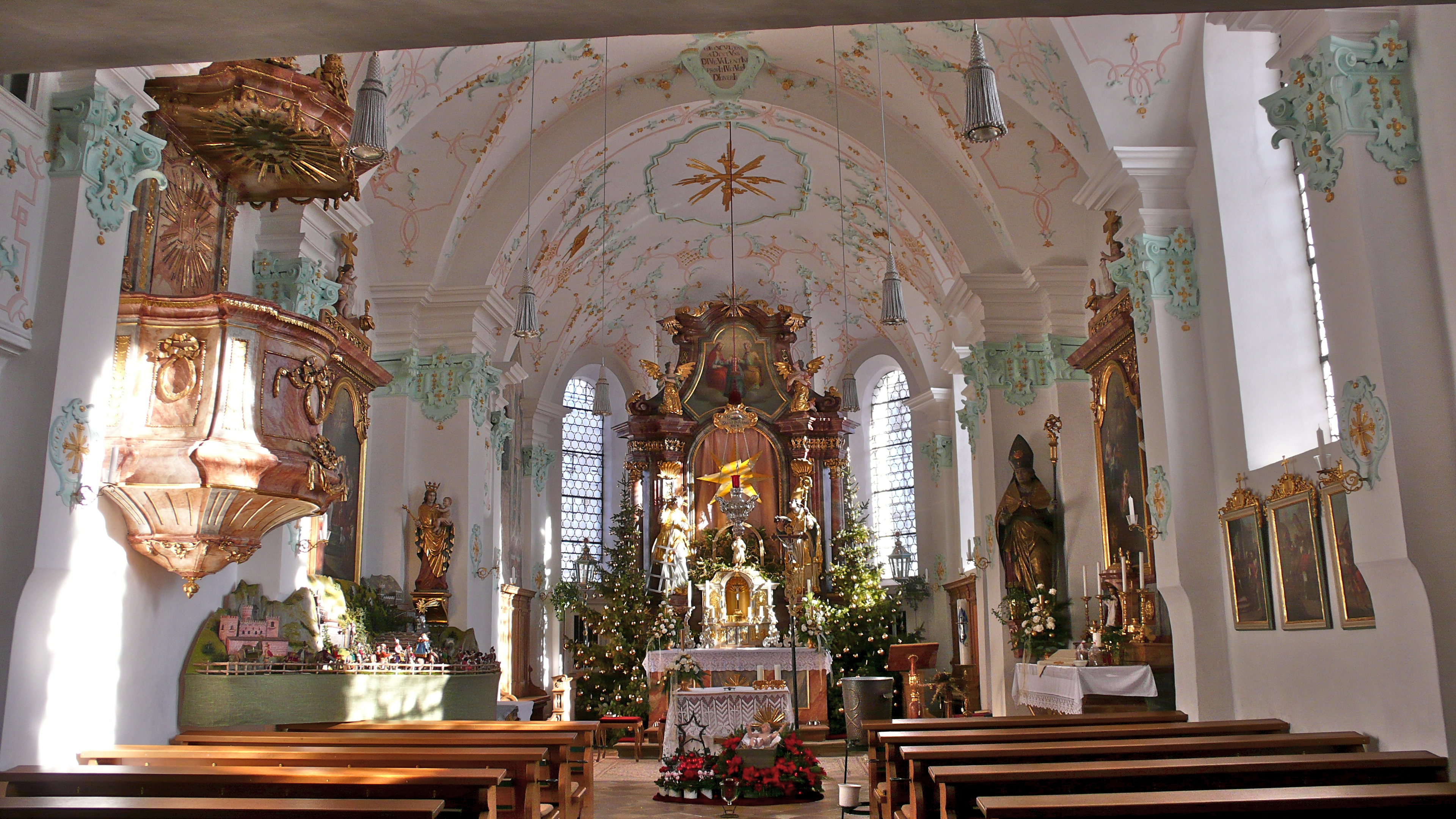 View of St. Valentin Marzoll after Christmas